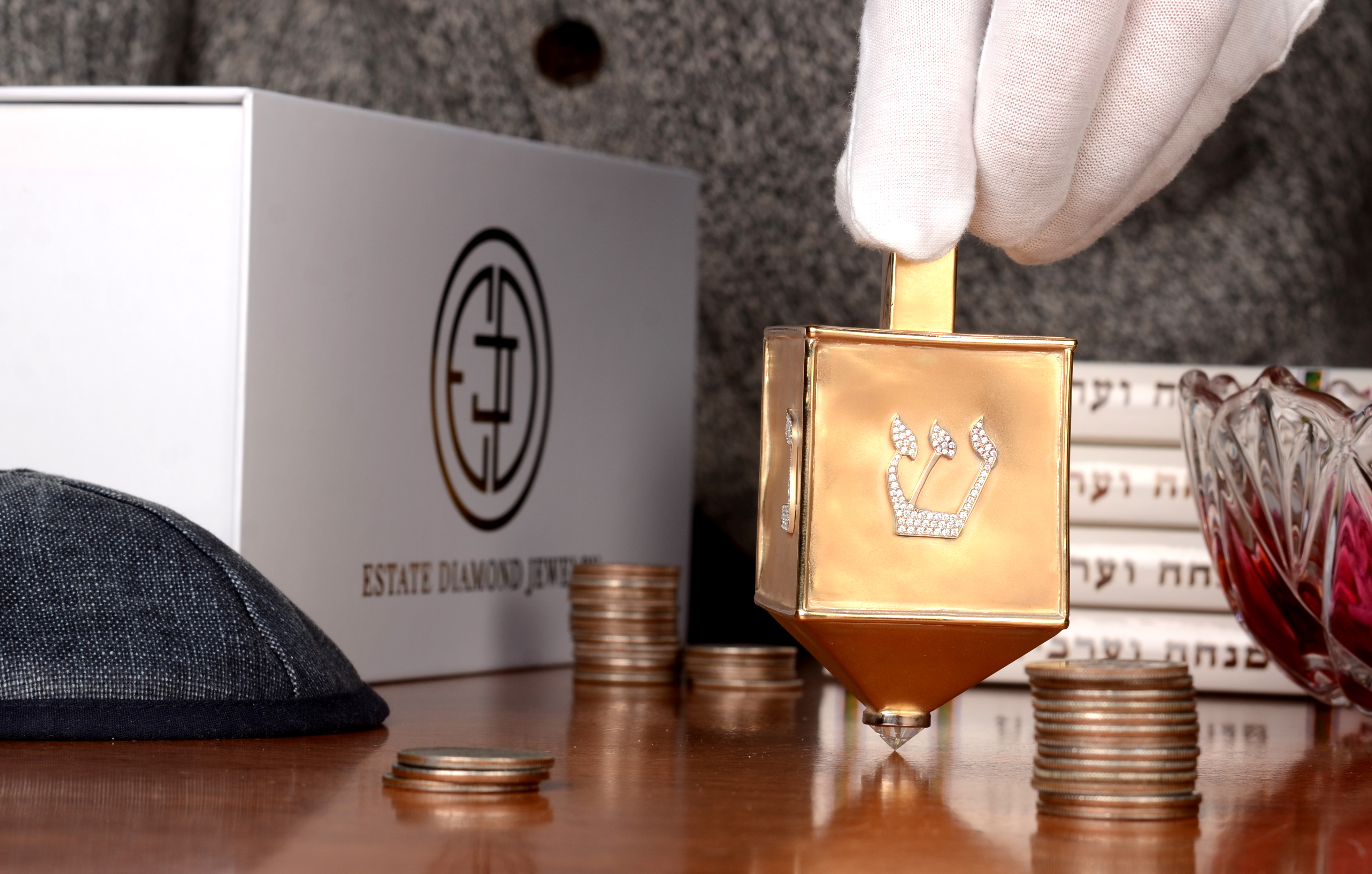 Spinning the World Record Most Valuable Dreidel. Achieved by Estate Diamond Jewelry at $70,000.